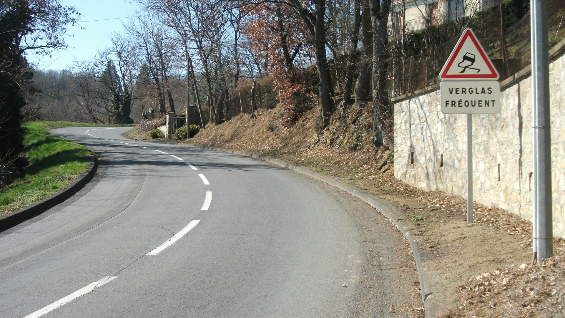 Sign "verglas fréquent" (slippery road). Exit of Durtol (63), departmental road 768.